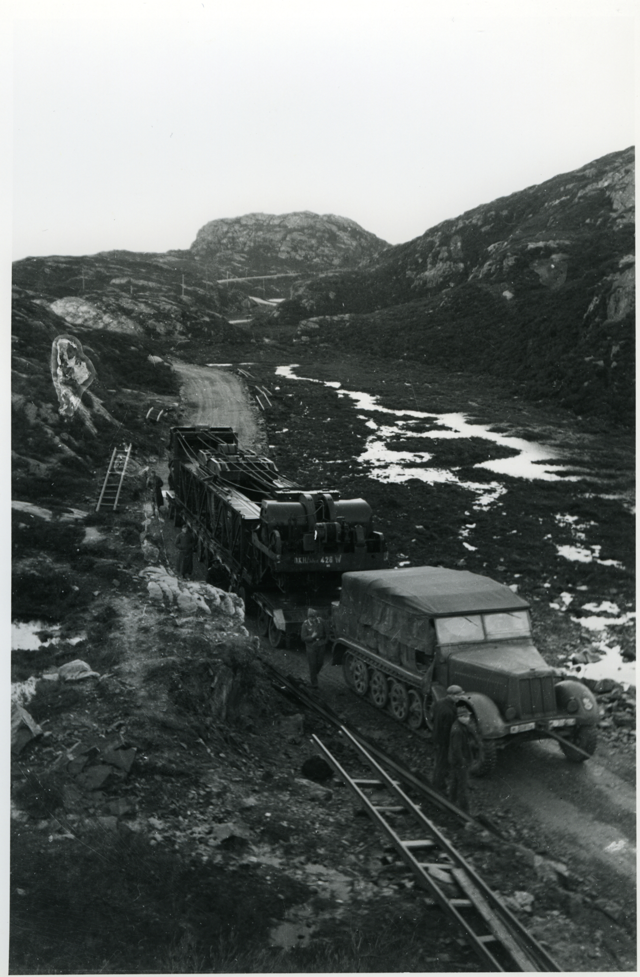 German transport of heavy crane used on various places during World War II. This particular crane is on its way up to Fjell festning, or MKB 11/504, a German coastal fortress on Sotra, outside Bergen, Norway. The crane was used for construction and fitting of the B-tower from the battleship "Gneisenau". Three vehicles (one of which can be seen in this picture) was used to tow the crane up to the aera where the fortress was being built. The picture is from December 1942, possibly 20 December 1942. In the background "Krossleitehaugen" can be seen. A little to the right by a small stream, the first Prisoner of War camp was built. However, it is not possible to see the houses (or sheds) in this picture.